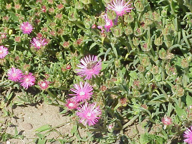 Species: Delosperma cooperi Family: Aizoaceae Image No. 4